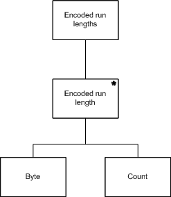 JSP The run length encoder output